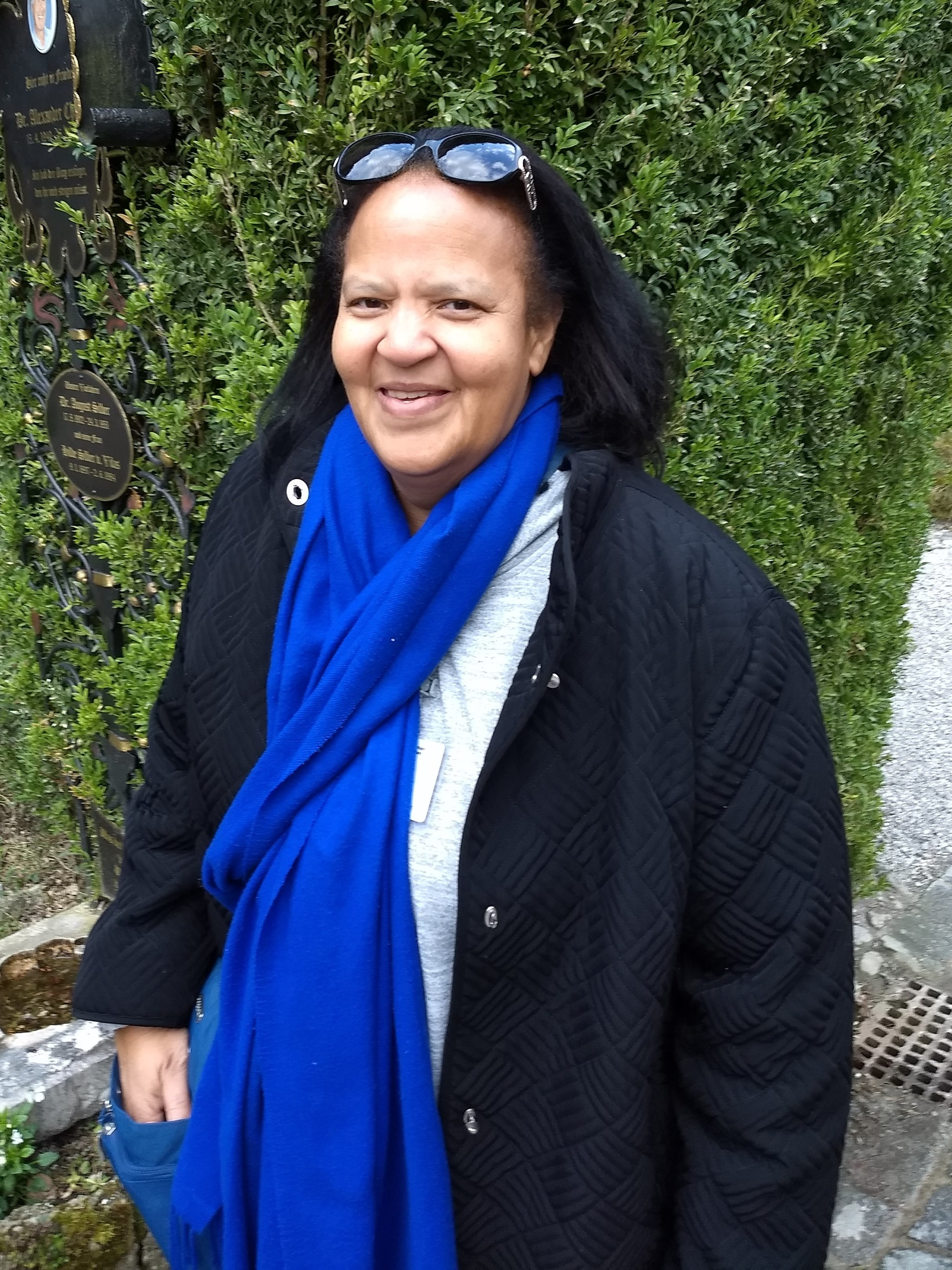 Alissandra Cummins is a leading expert in Caribbean heritage, and former President of the UNESCO executive board. This photograph was taken in Salzburg, during the Salzburg Global Seminar on cultural heritage.